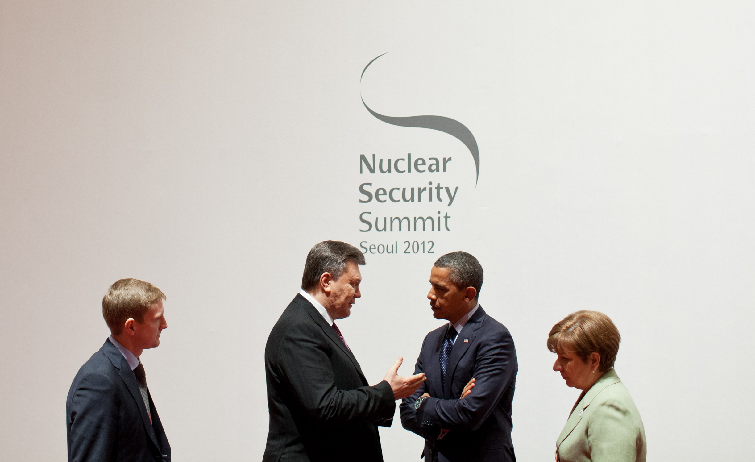 President Barack Obama talks with President Viktor Yanukovych of Ukraine during a pull aside at the Nuclear Security Summit at the Coex Center in Seoul, Republic of Korea, March 27, 2012. (Official White House Photo by Pete Souza)